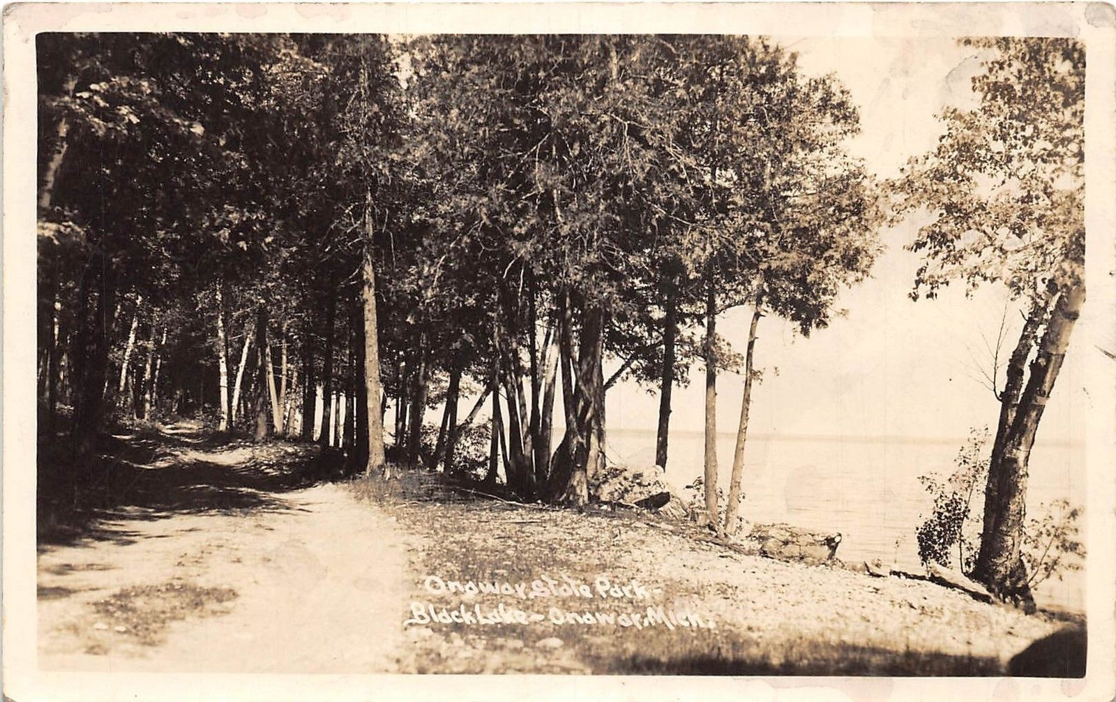 Onaway State Park c1930